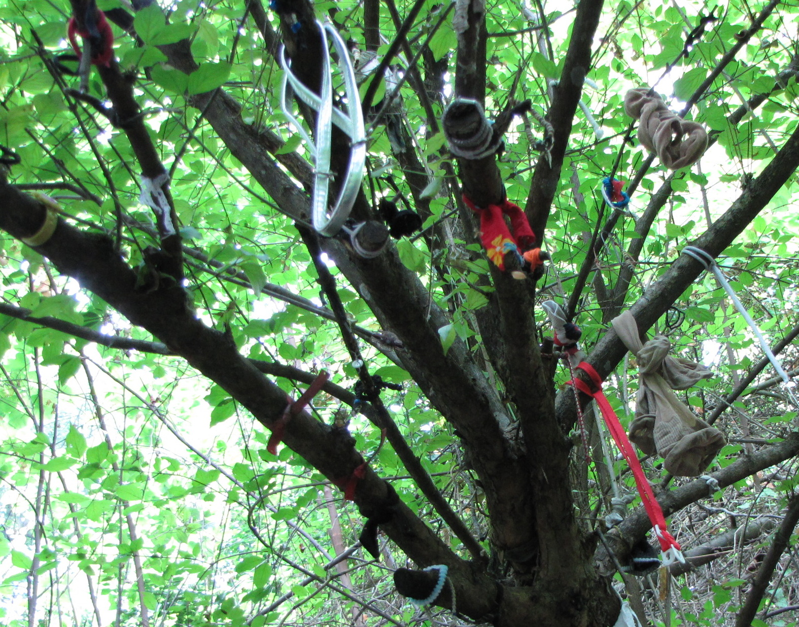 Agia Kori, devotional objects